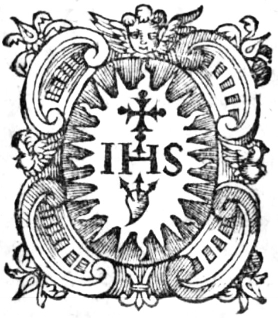 Emblem of the Society of Jesus, from a 1586 print.